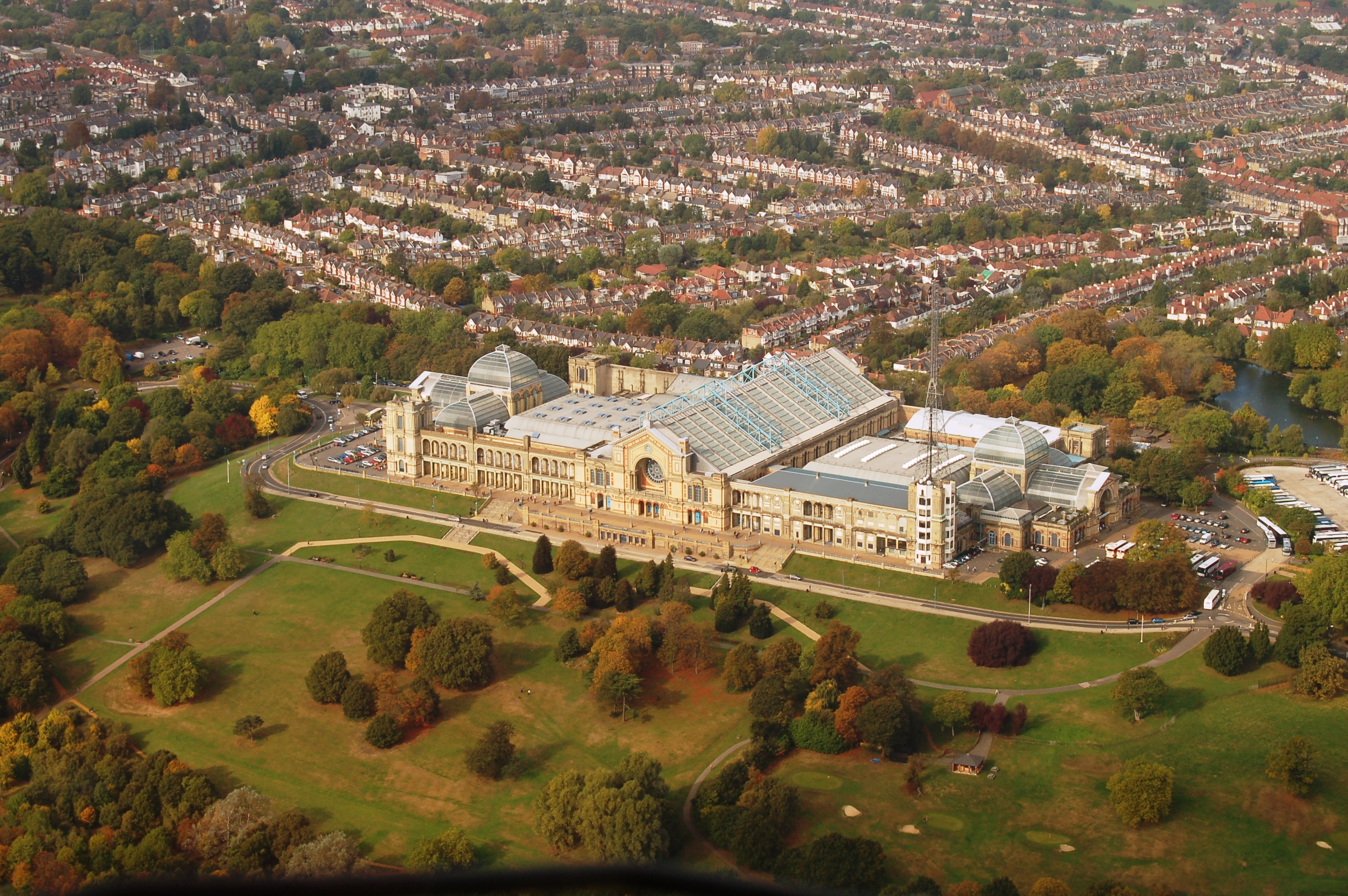 Alexandra Palace was built in an area between Hornsey, Muswell Hill and Wood Green in North London, England, in 1873 as a public centre of recreation, education and entertainment.